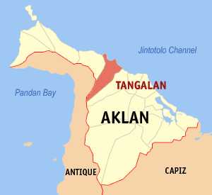 Map of Aklan showing the location of Tangalan